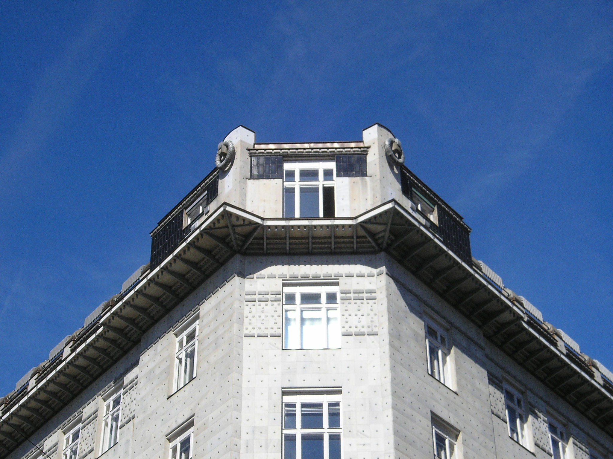 Detail image of the Österreichische Postsparkasse (P.S.K.), constructed by Otto Wagner.